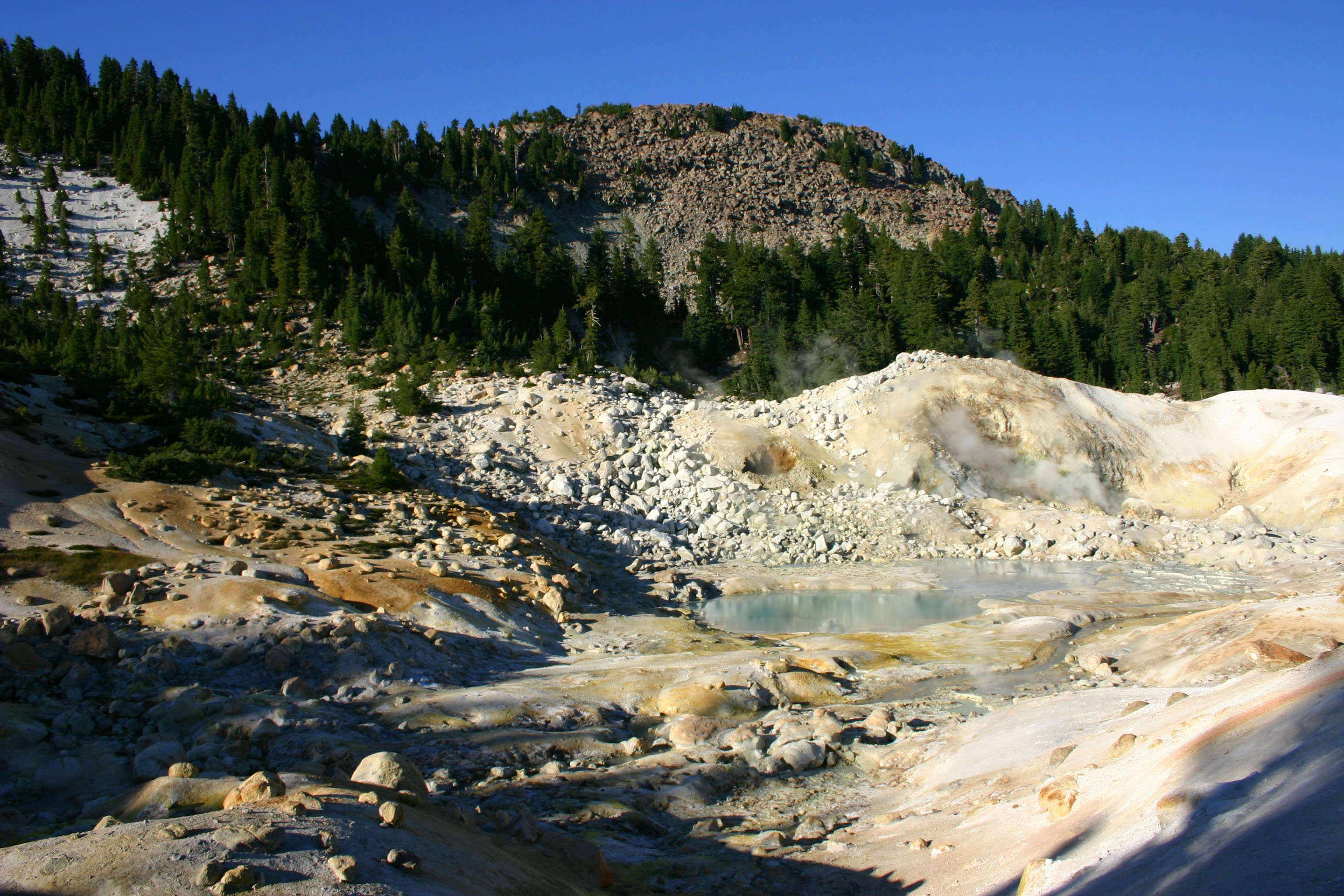 Bumpass Mountain above Bumpass Hell. The face of the mountain consists of large dacite lava boulders produced during the last big eruption of Lassen Peak.